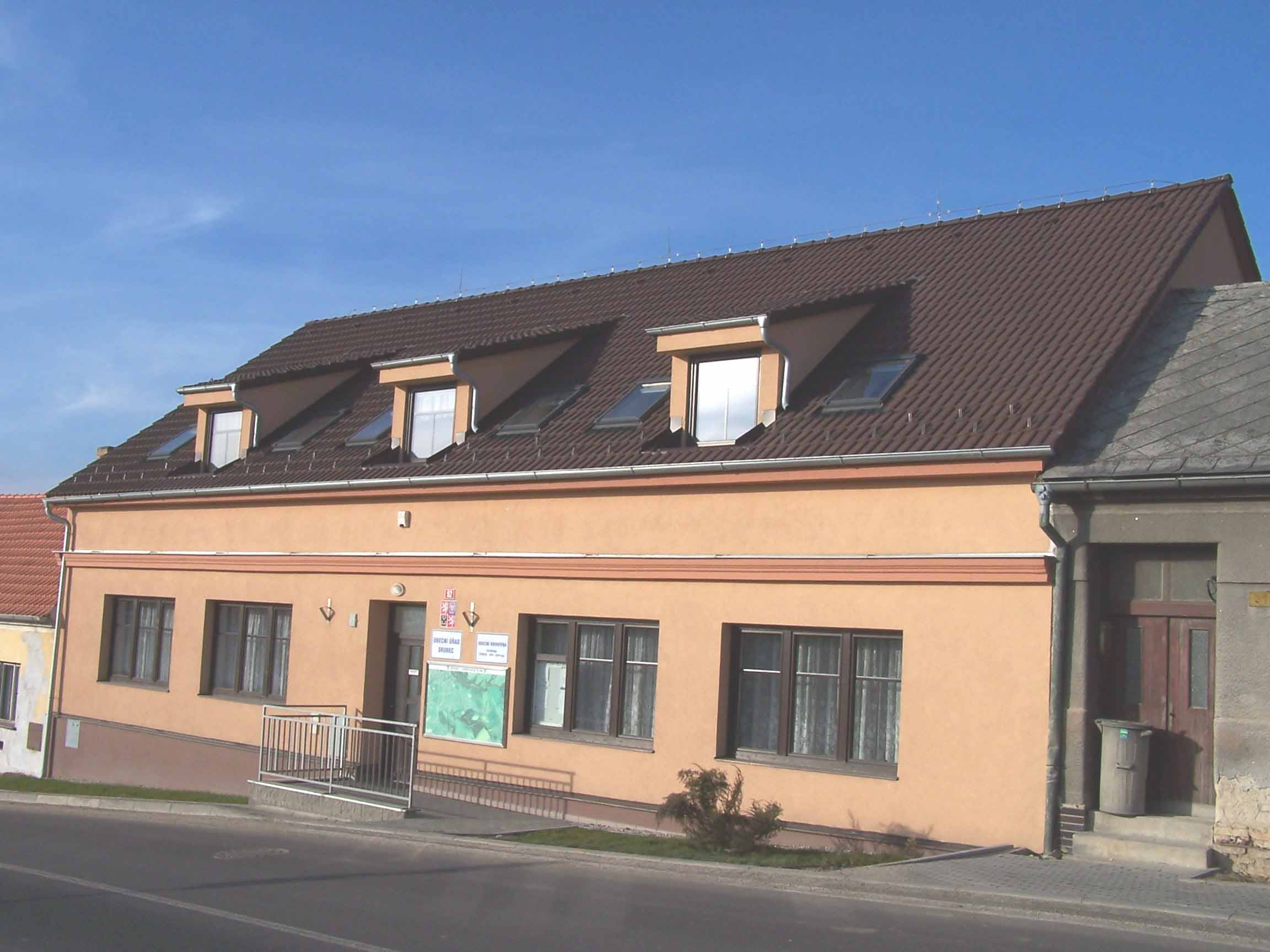 Municipal office building in Srubec, Czech Republic